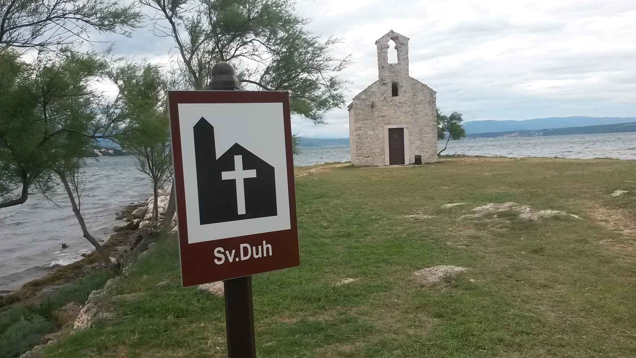 Island near to Posedarje